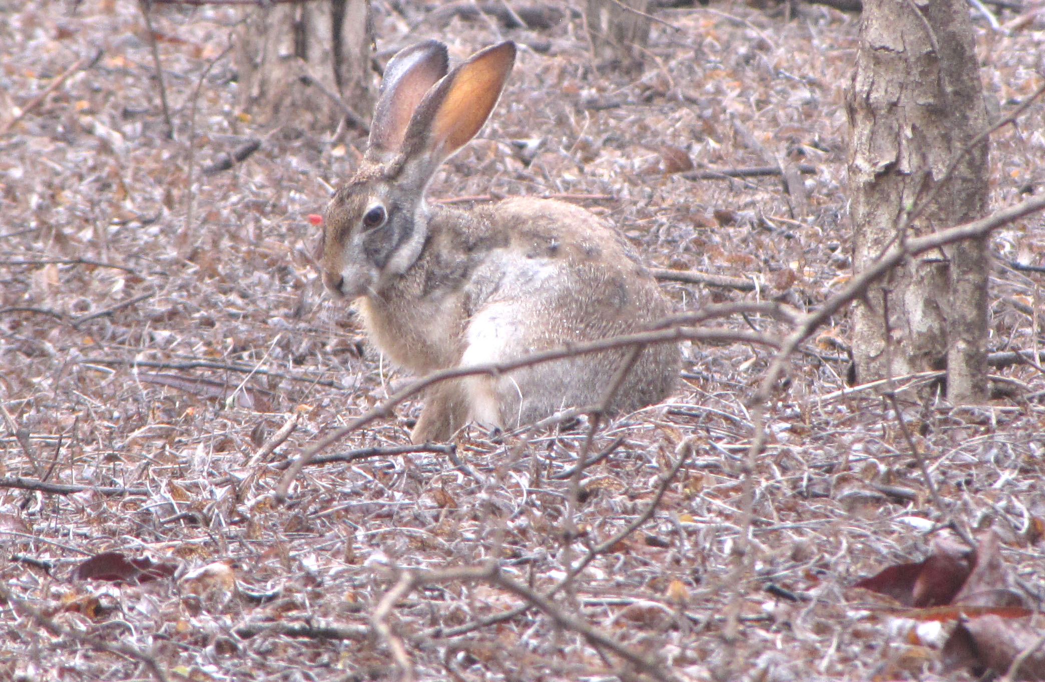 an indian or black-naped hare on taljai hills near Pune.